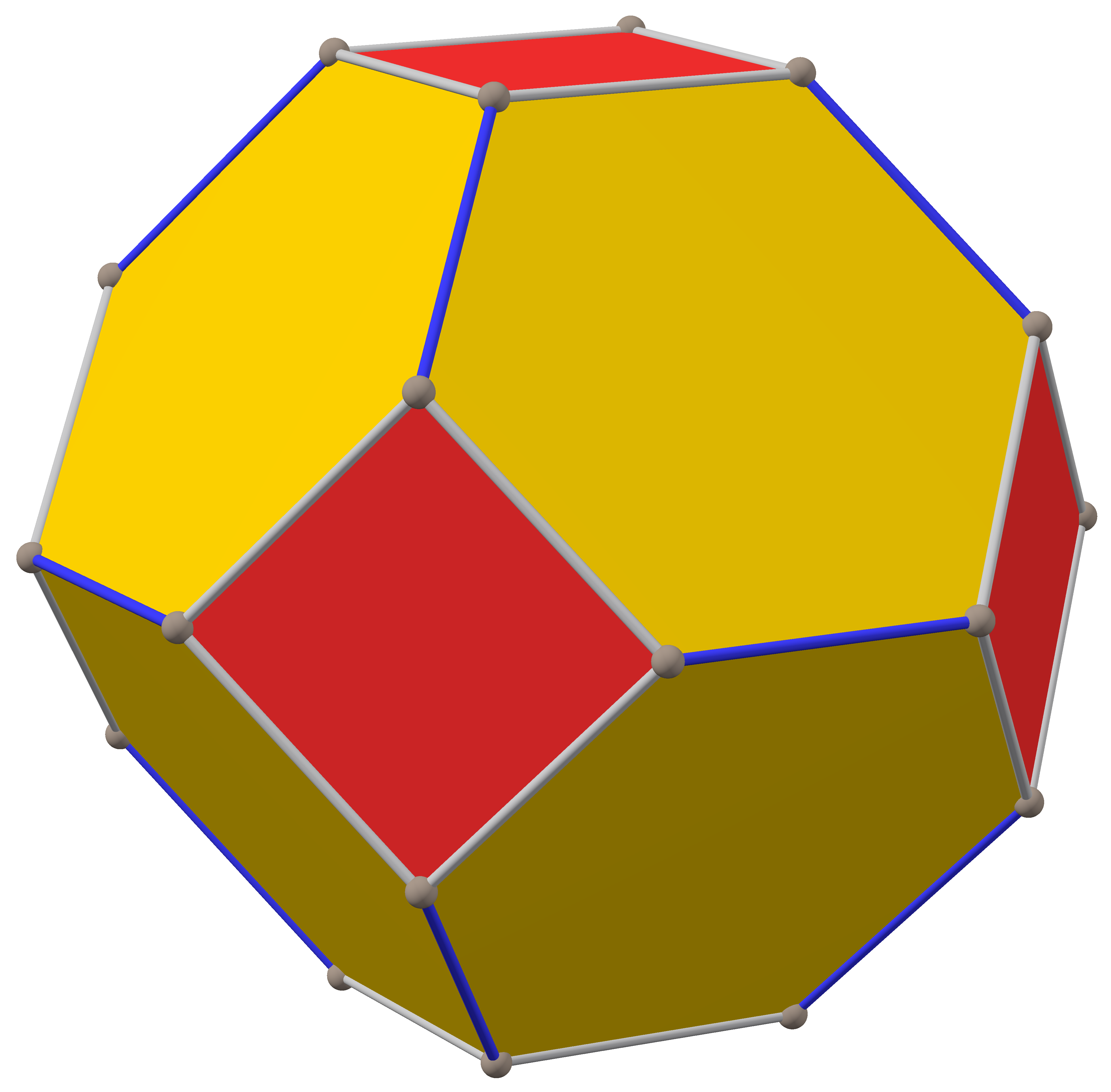 Image set Platonic, Archimedean and Catalan solids with direction colors Part of Polyhedra with direction colors (image set) This polyhedron has a form of octahedral symmetry. There are 12 blue elements. This set contains renderings of Platonic, Archimedean and Catalan solids. For most of them the sphere shown on the right is the polyhedrons midsphere. The geometric properties of these images have been calculated with Python, and they have been rendered with POV-Ray. The source code used can be found on GitHub. The POV-Ray sources are in this folder. This image was created with POV-Ray. This PNG graphic was created with Python. The images in this set have consistent sizes and angles. Please do not overwrite them. If this image has a margin, there is probably a variant without it — or it can be uploaded. (Filename with " max" at the end.)